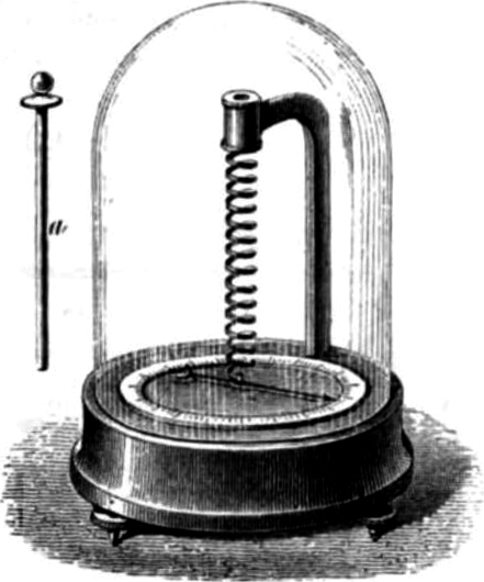 Metallic Thermometer Remarkable for its Great Reactivity built bt Abraham Louis Breguet.